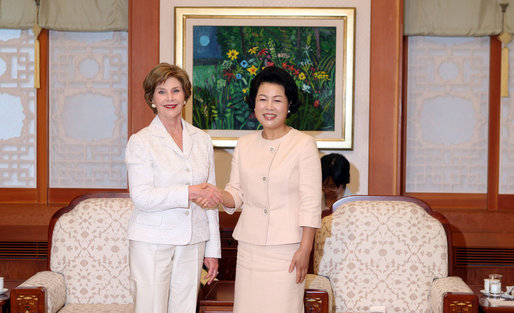 Mrs. Laura Bush meets with Mrs. Kim Yoon-ok, wife of the President of the Republic of Korea, during a coffee in Seoul on August 6, 2008. White House photo by Shealah Craighead.